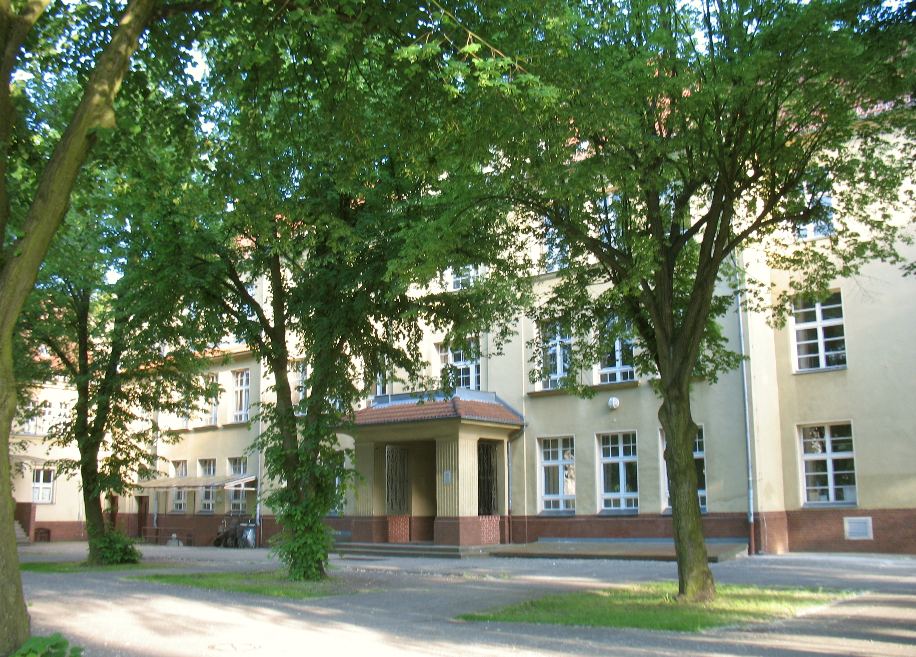 Fritz-Kühn-Schule, Bohnsdorf